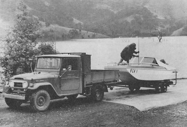 Fire Patrol Launch, Eildon Weir- Taggerty District